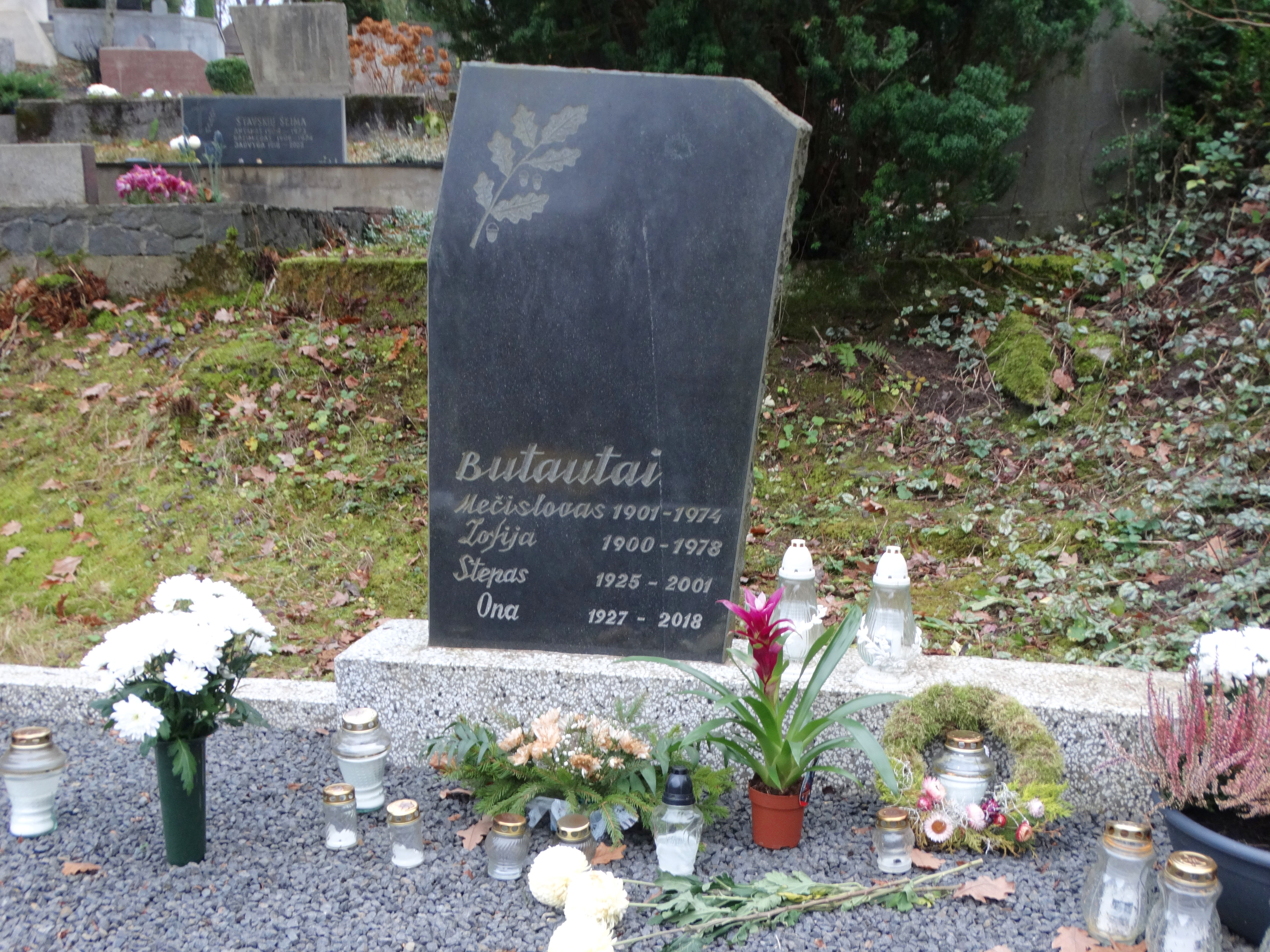 Tomb of Stepas Butautas, Eiguliai cemetery, Lithuania